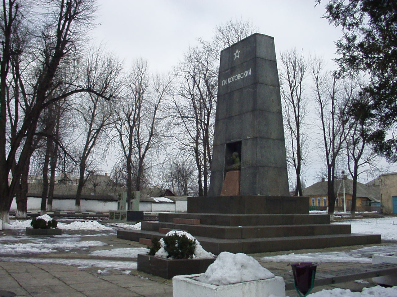 Memorial to Grigory Kotovsky in Kotovsk, Odessa oblast, Ukraine, where he was buried